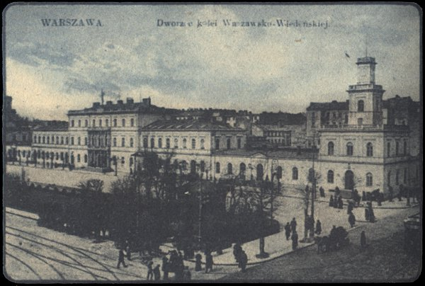 Railway station of Warsaw-Vienna Railway (socalled Vienna Railway Station). Reprint of old postcard.